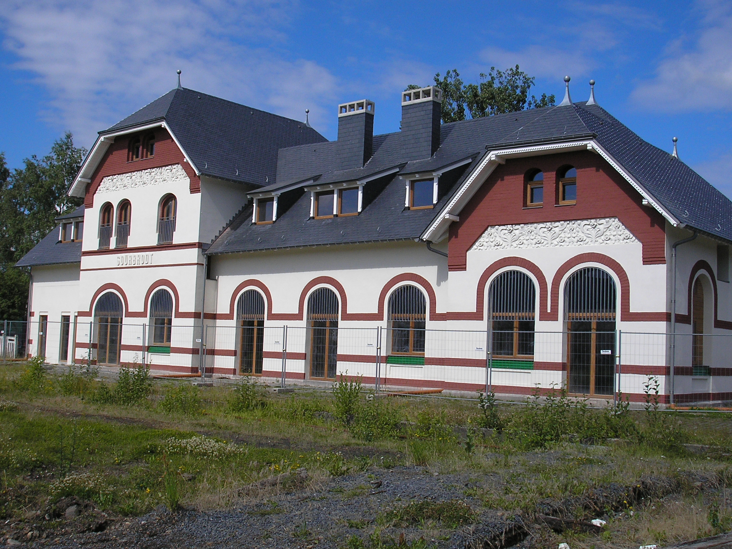 Railway-Station Sourbrodt, East Belgium